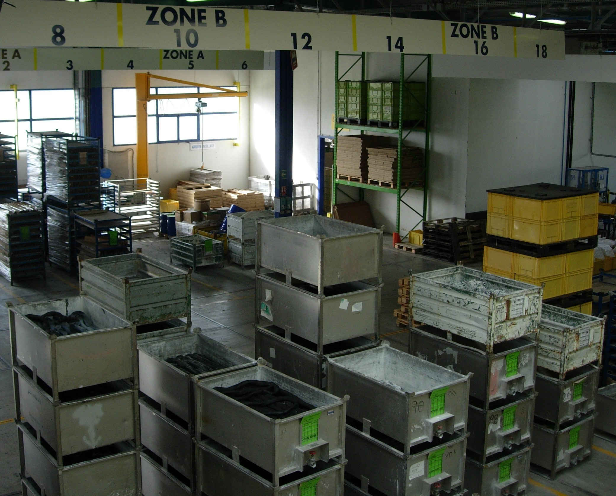 Semifinished polymer products tested by the quality control laboratory (QC) (result: meet the specifications, green card). Next step is extrusion.